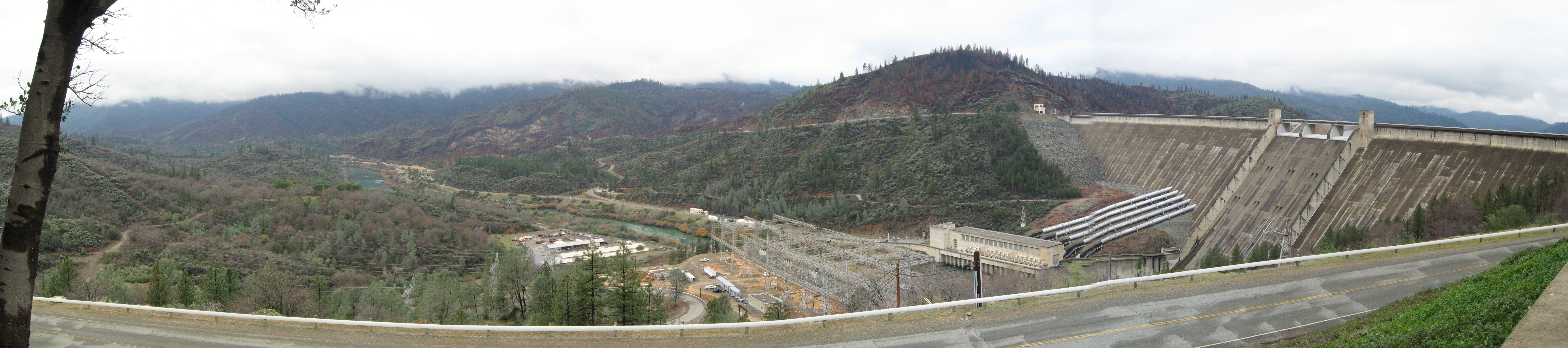 Panorama of the Shasta Dam in California taken on January 2006